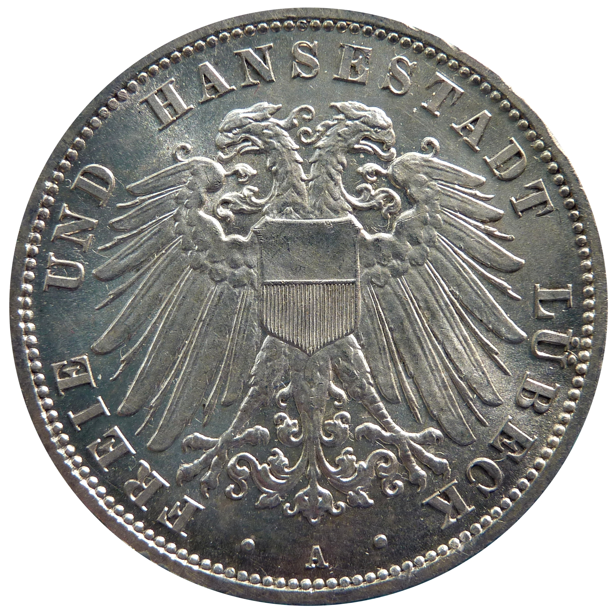 3-Mark-coin of Lübeck (1908)